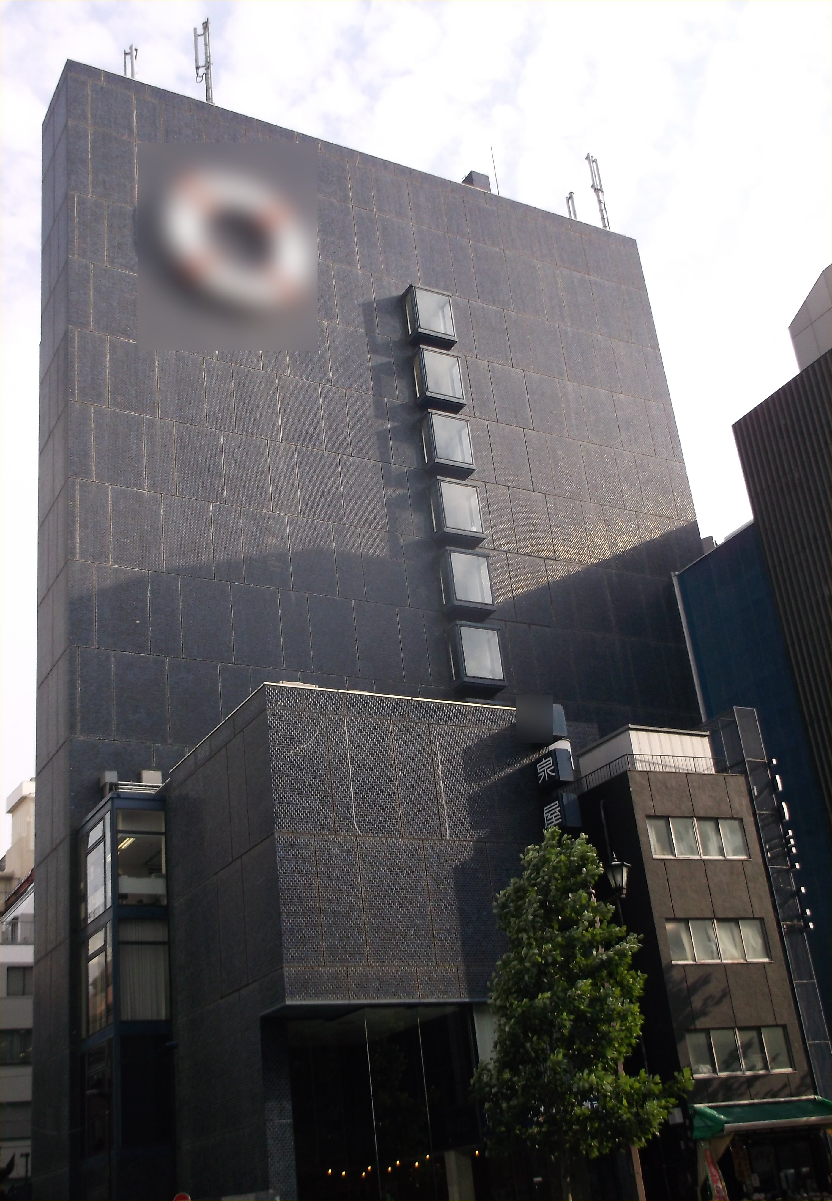 A photo of "Izumiya Tokyo ten"(a cookie shop in Tokyo.)Kojimachi,Chiyoda-ku,Tokyo,Japan.